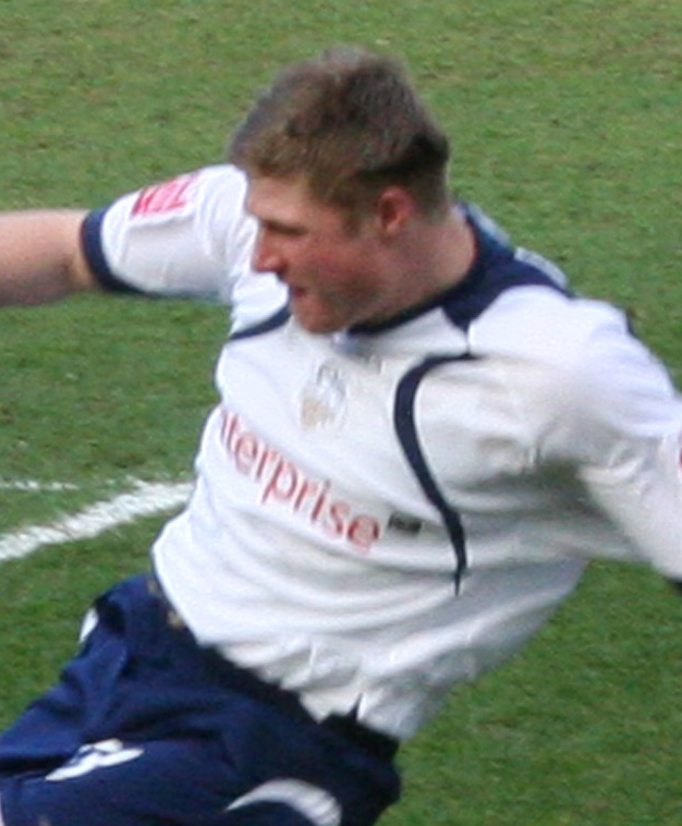 Neil Mellor. Image cropped from original at flickr.